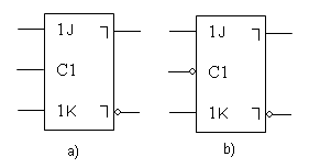 Bistable JK MS